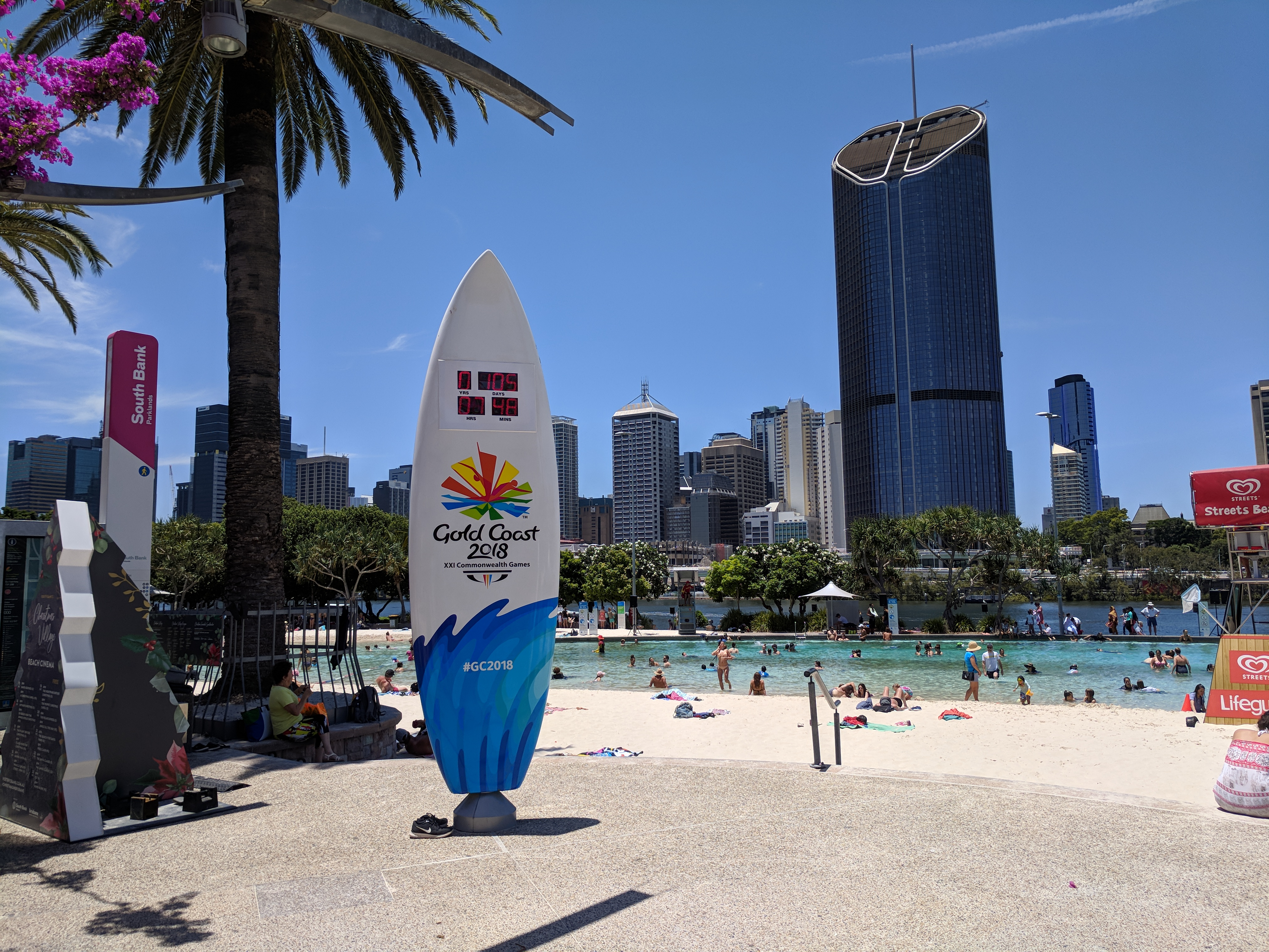 105 days to Gold Coast 2018 Commonwealth Games